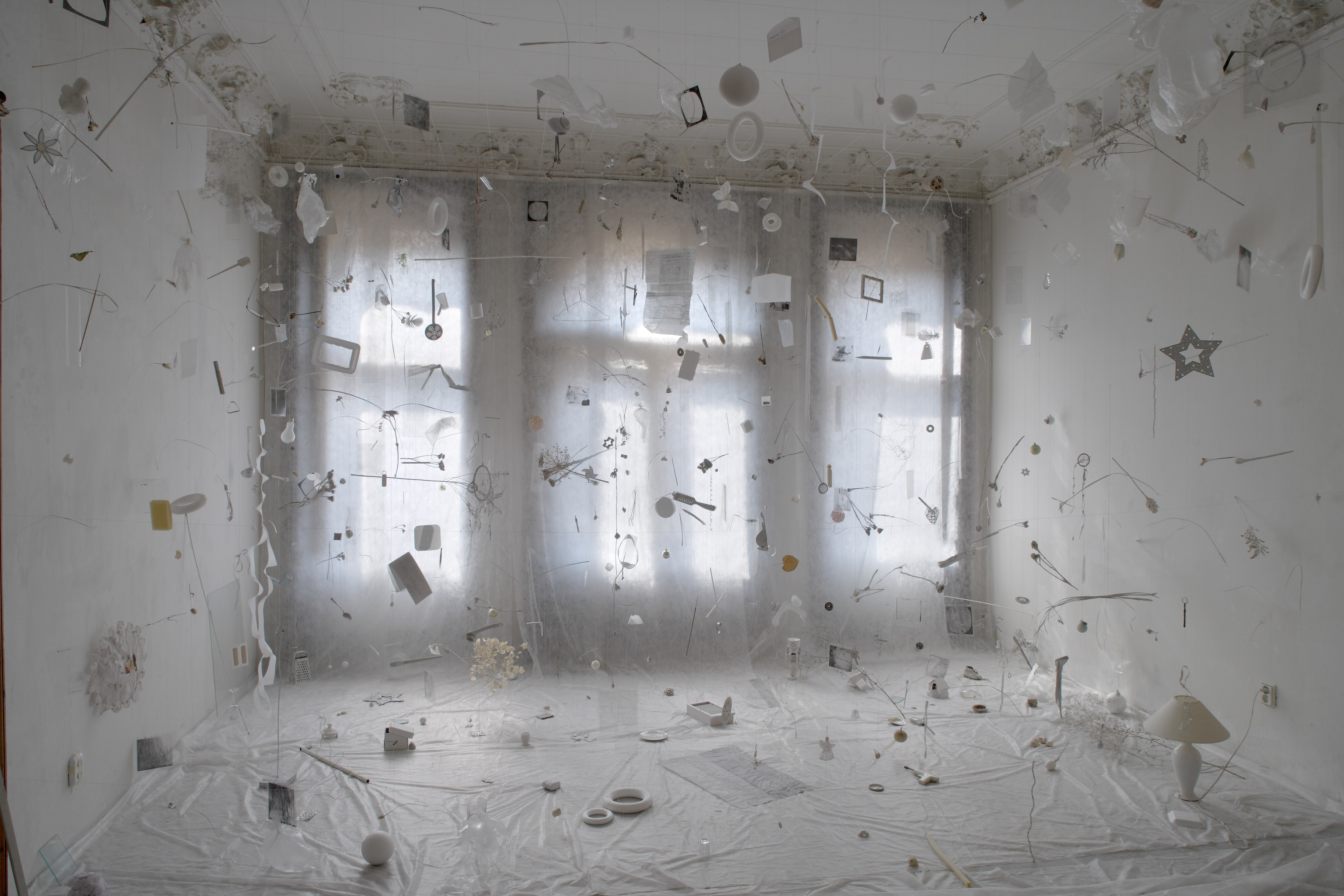 Kamila Ženatá: 2nd floor, site-specific, Prague, Myslíkova 9, 2009